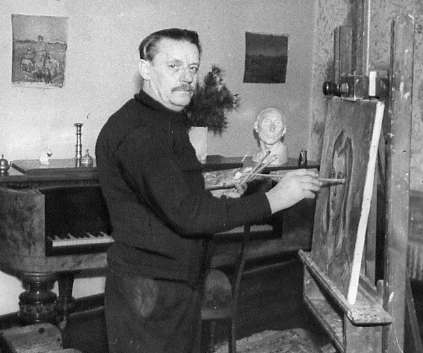 Carl Trier Aagaard in his atellier in Nymindegab